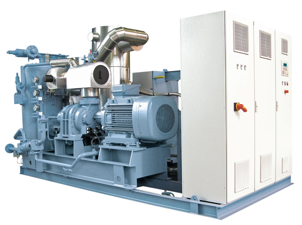 Picture of a Chiller with Heat Pump